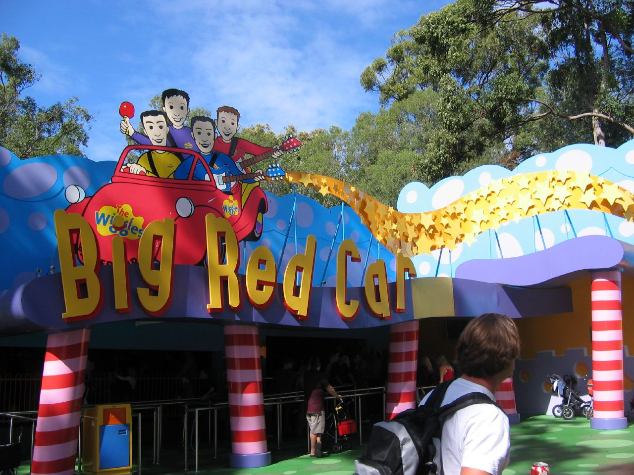 The Big Red Car Ride at Wiggles World at Dreamworld. The ride is an indoor dark ride.